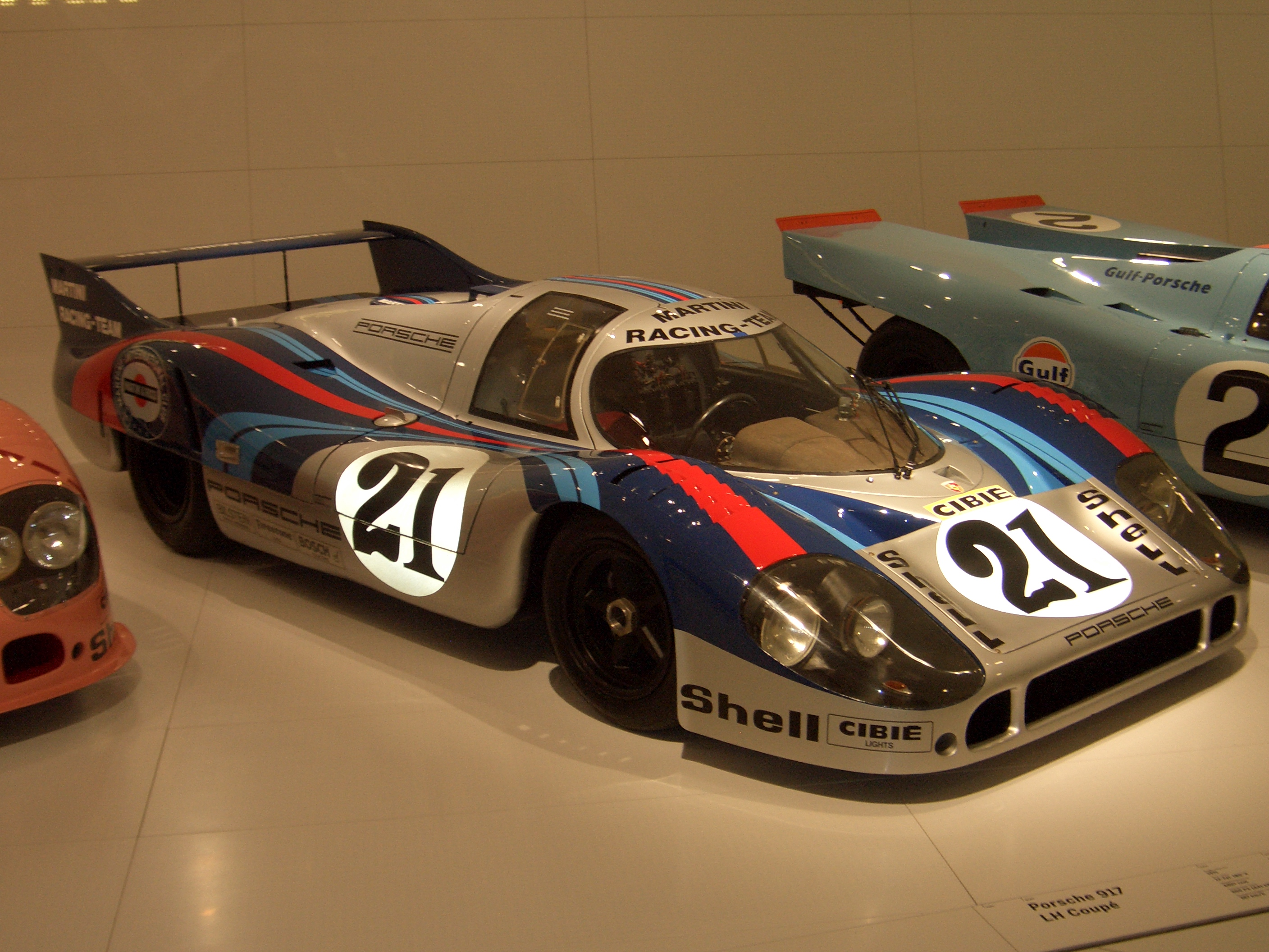 see filename for despcription - seen at Porsche Museum Native namePorsche-MuseumLocationStuttgartCoordinates48° 50′ 07″ N, 9° 09′ 06″ E Established1976 (old museum) 2009 (new museum)Web page control : Q328623 VIAF: 138511768 GND: 2087859-X SUDOC: 155641123 NKC: ko2015876799 institution QS:P195,Q328623